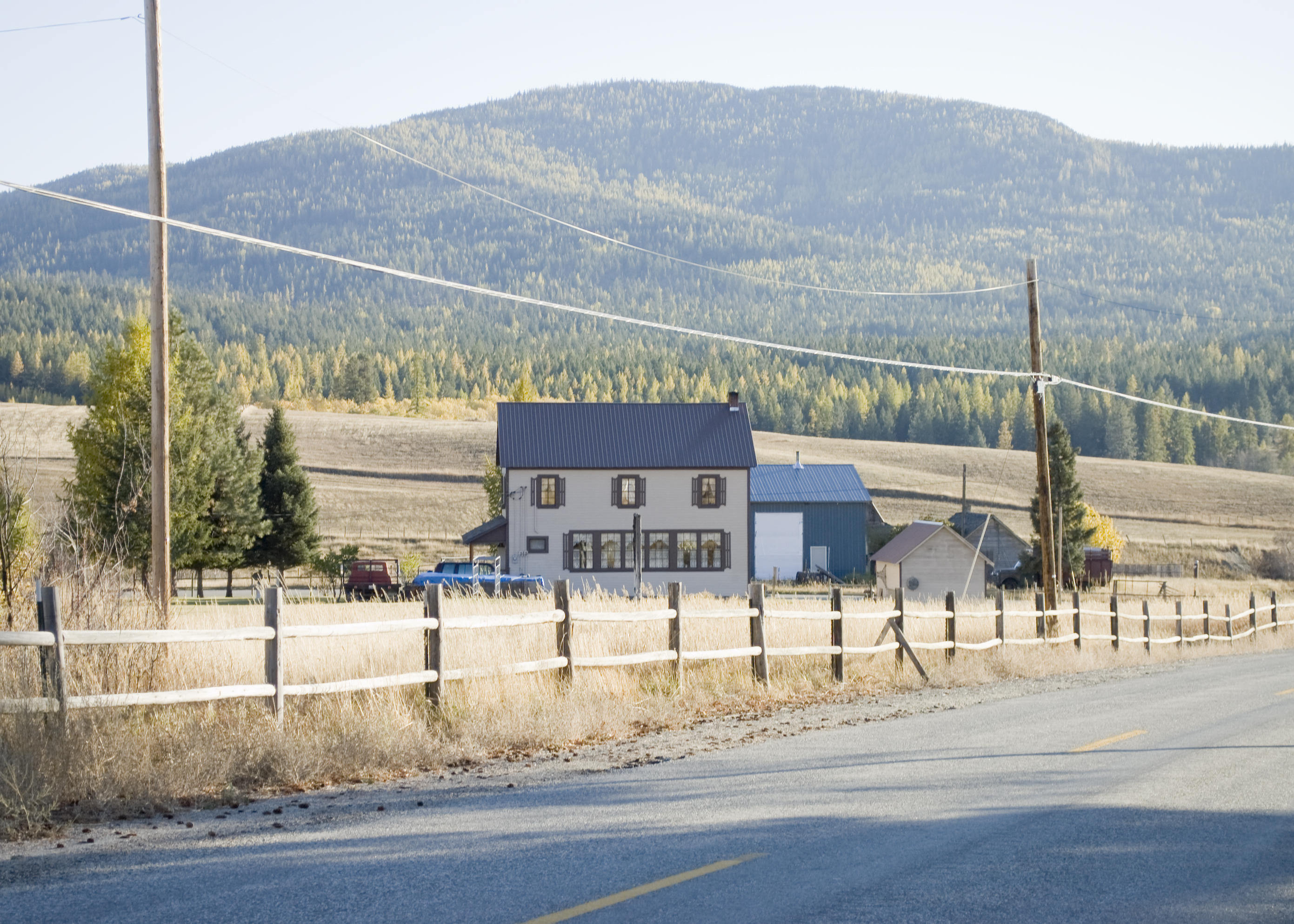 A photograph of a building in Havillah, Washington.